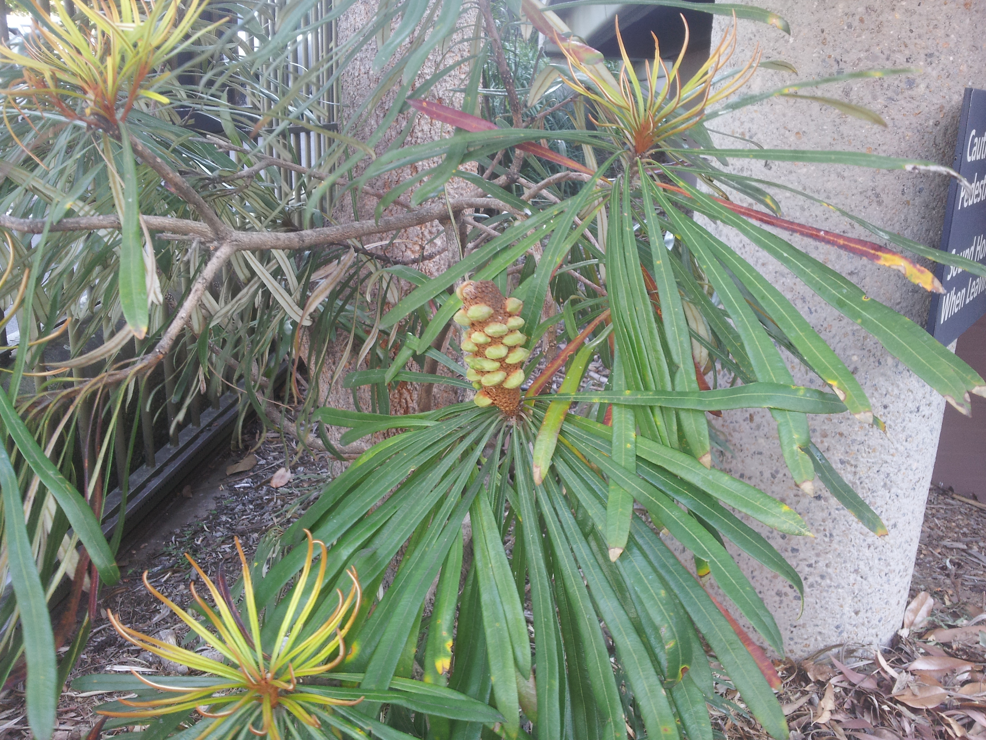 Banksia aquilonia new growth and infructescence with young follicles, Royal Botanic Gardens Sydney